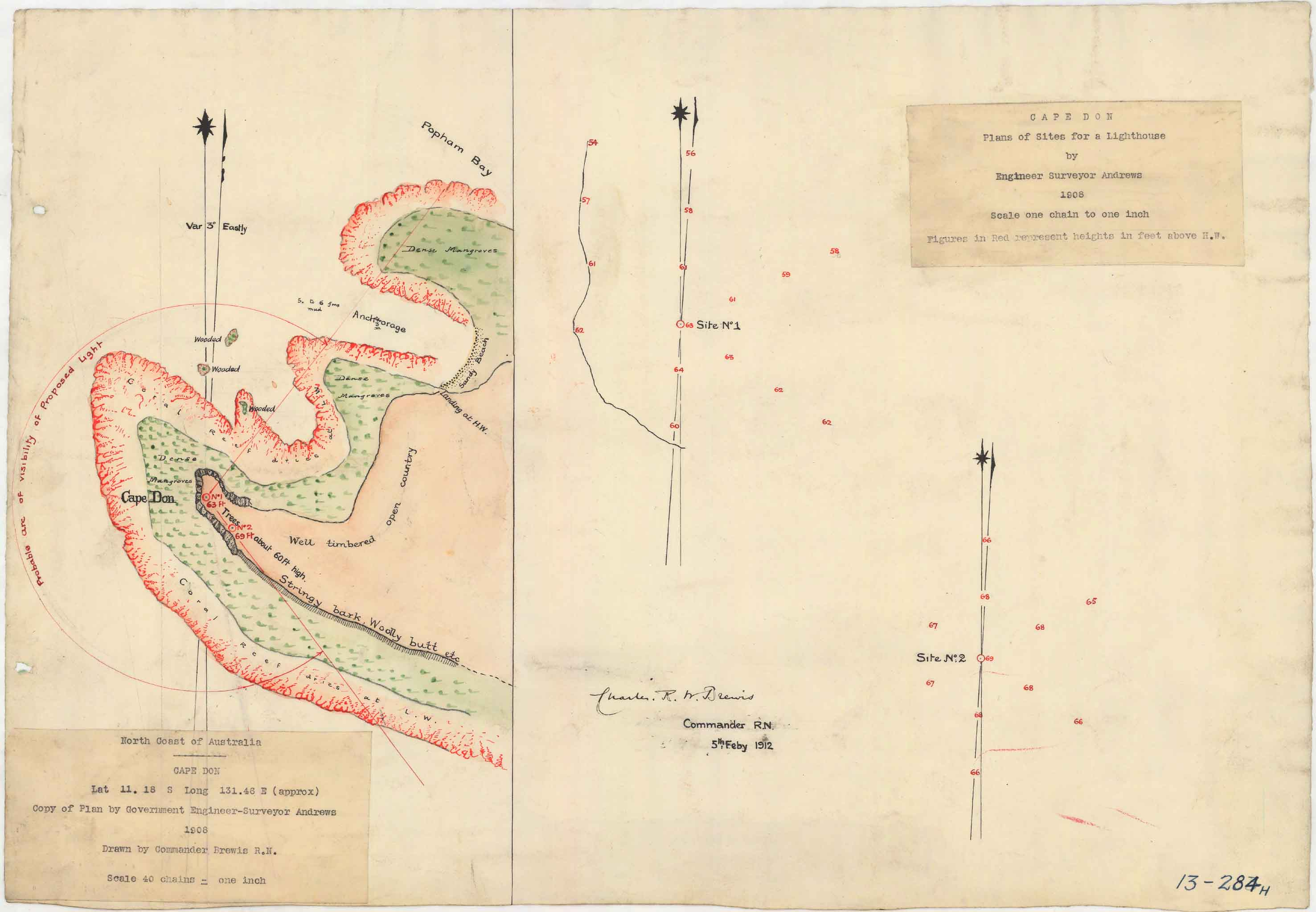 Cape Don Light - Plan of sites for a lighthouse [Copied by Charles R W Brewis, Commander, Royal Navy on 5 February 1912 from plans by Government Engineer - Surveyor Andrews, made in 1908]